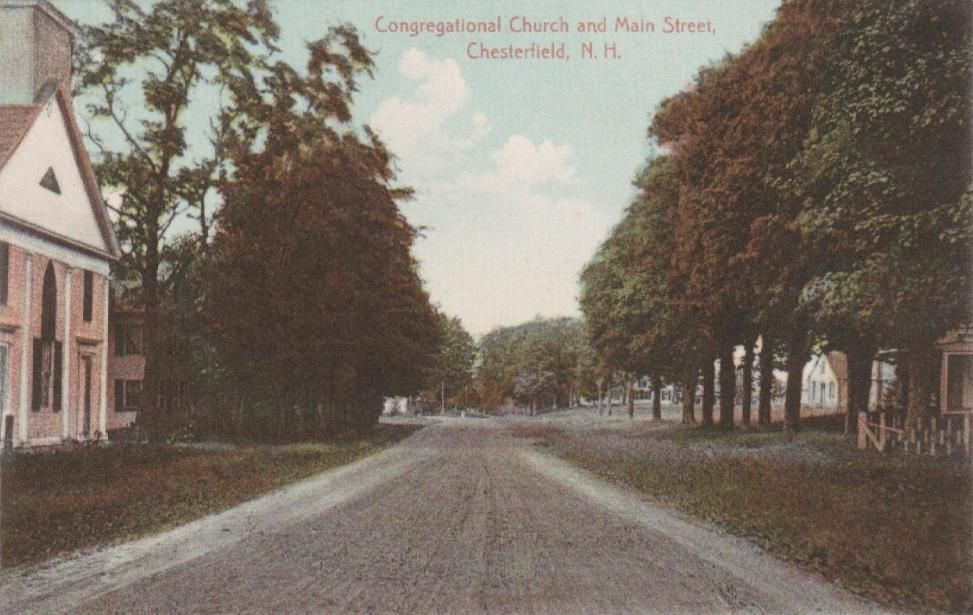 Congregational Church and Main Street, West Chesterfield, New Hampshire. The church was built in 1830.